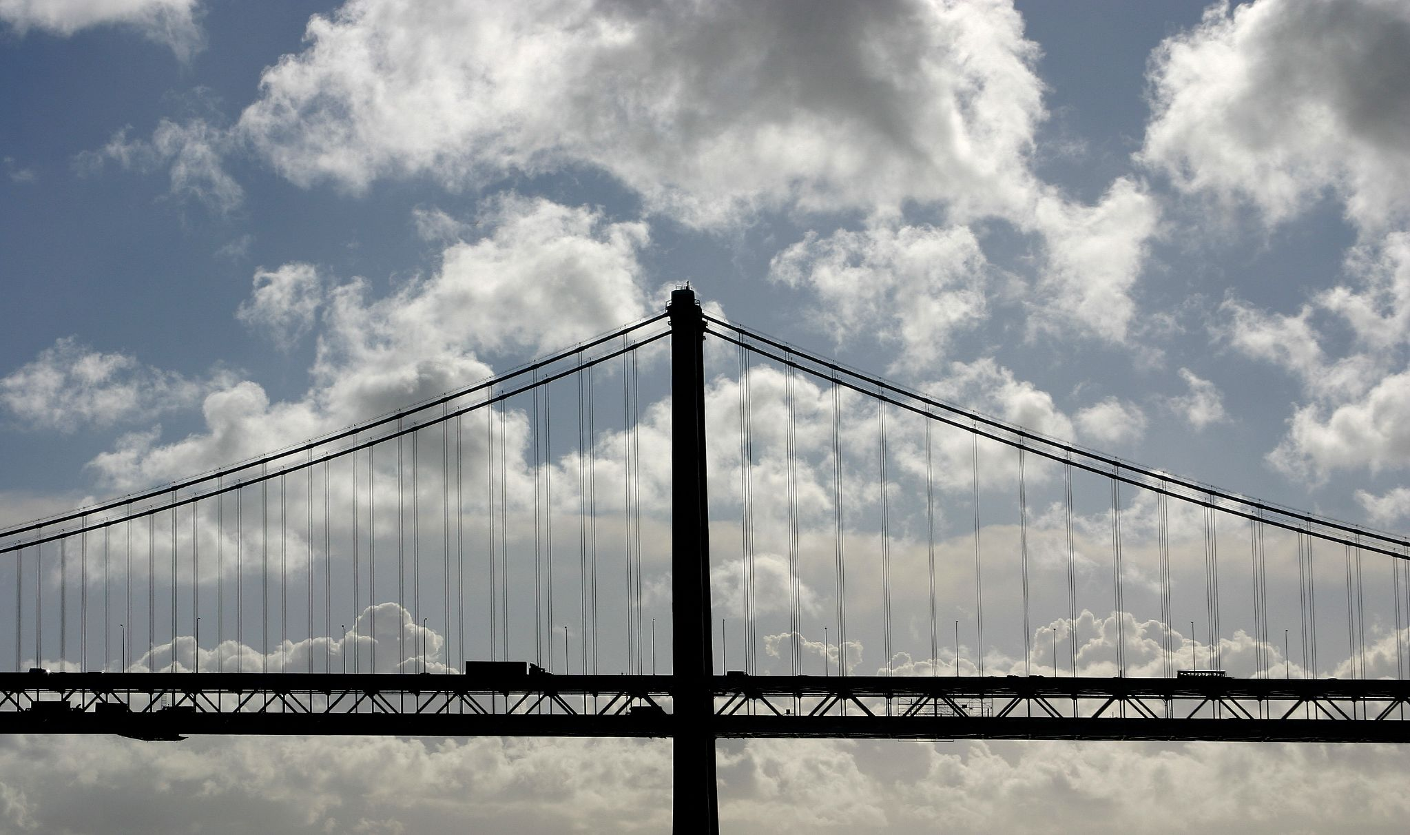 The San Francisco – Oakland Bay Bridge in California.